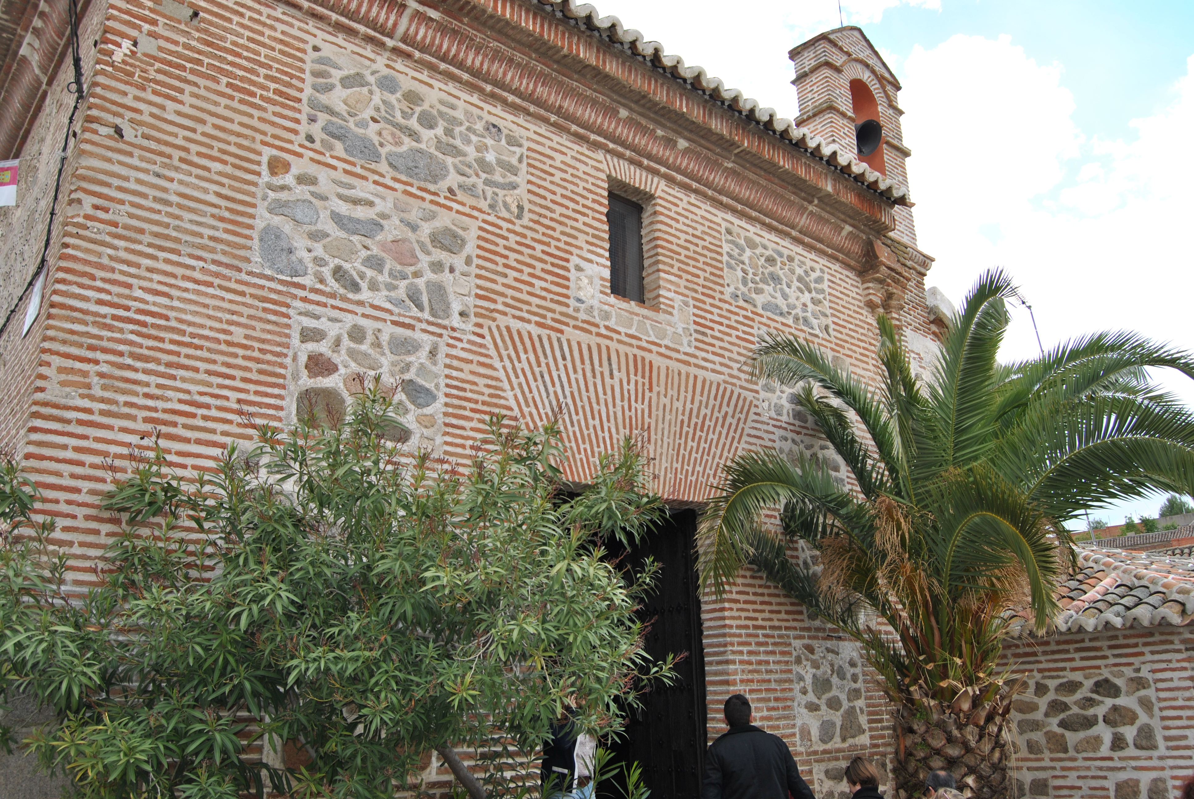 Ermita del Santísimo Cristo de Valdelpozo